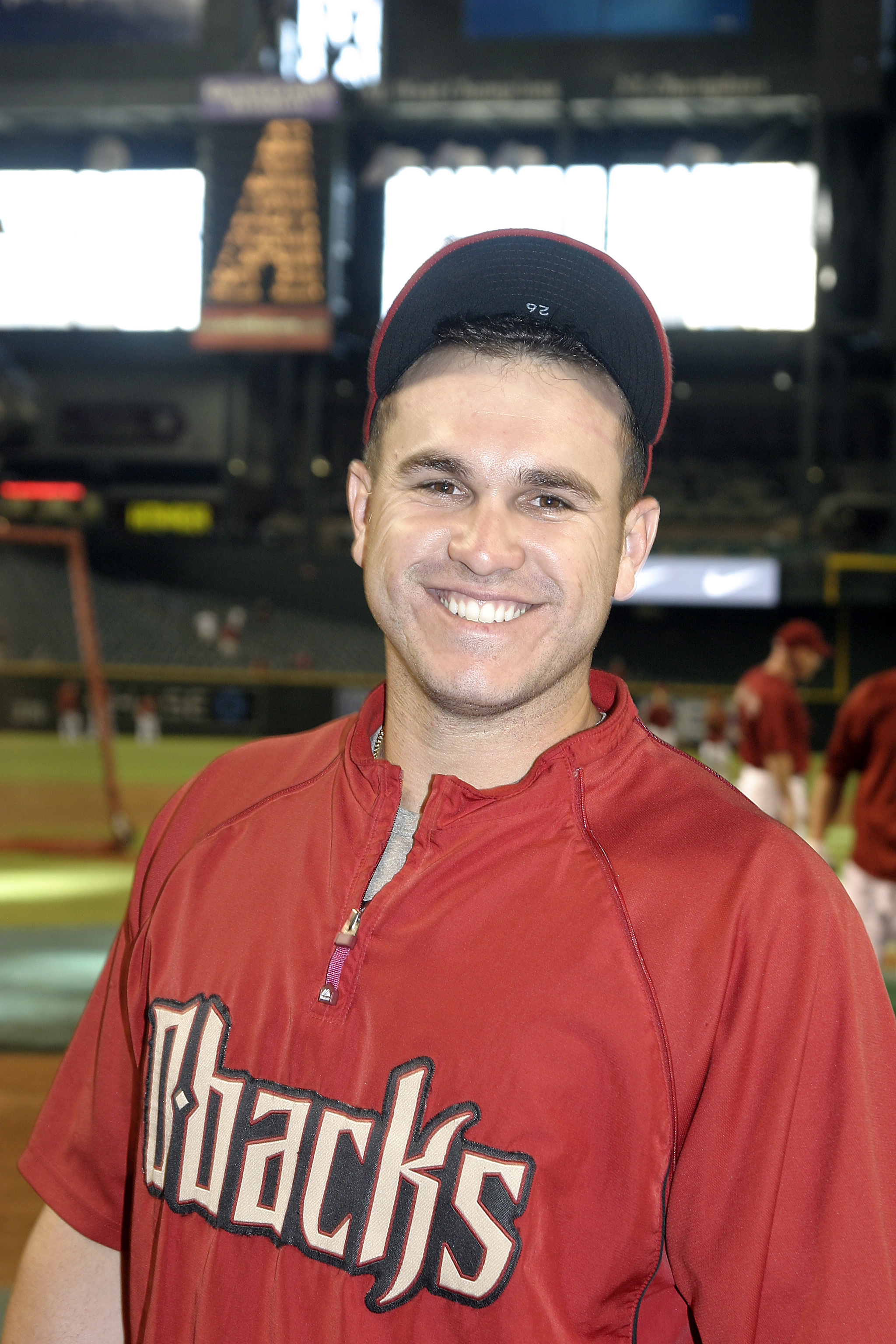 Description Montero, 2010 Date7 August 2010, 15:31 (UTC)SourceI (Mwinog2777 (talk)) created this work entirely by myself.AuthorMark Winograd 15:31, 7 August 2010 . . Mwinog2777 . . 2,048×3,072 (4.02 MB) Montero, 2010